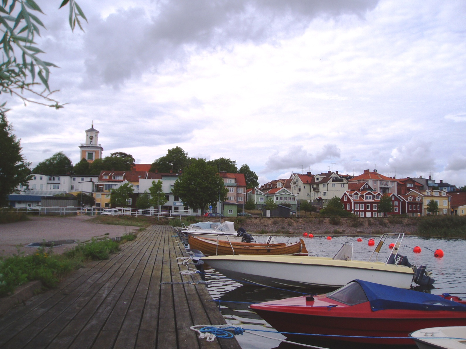 Mönsterås, Sweden, view from harbour.